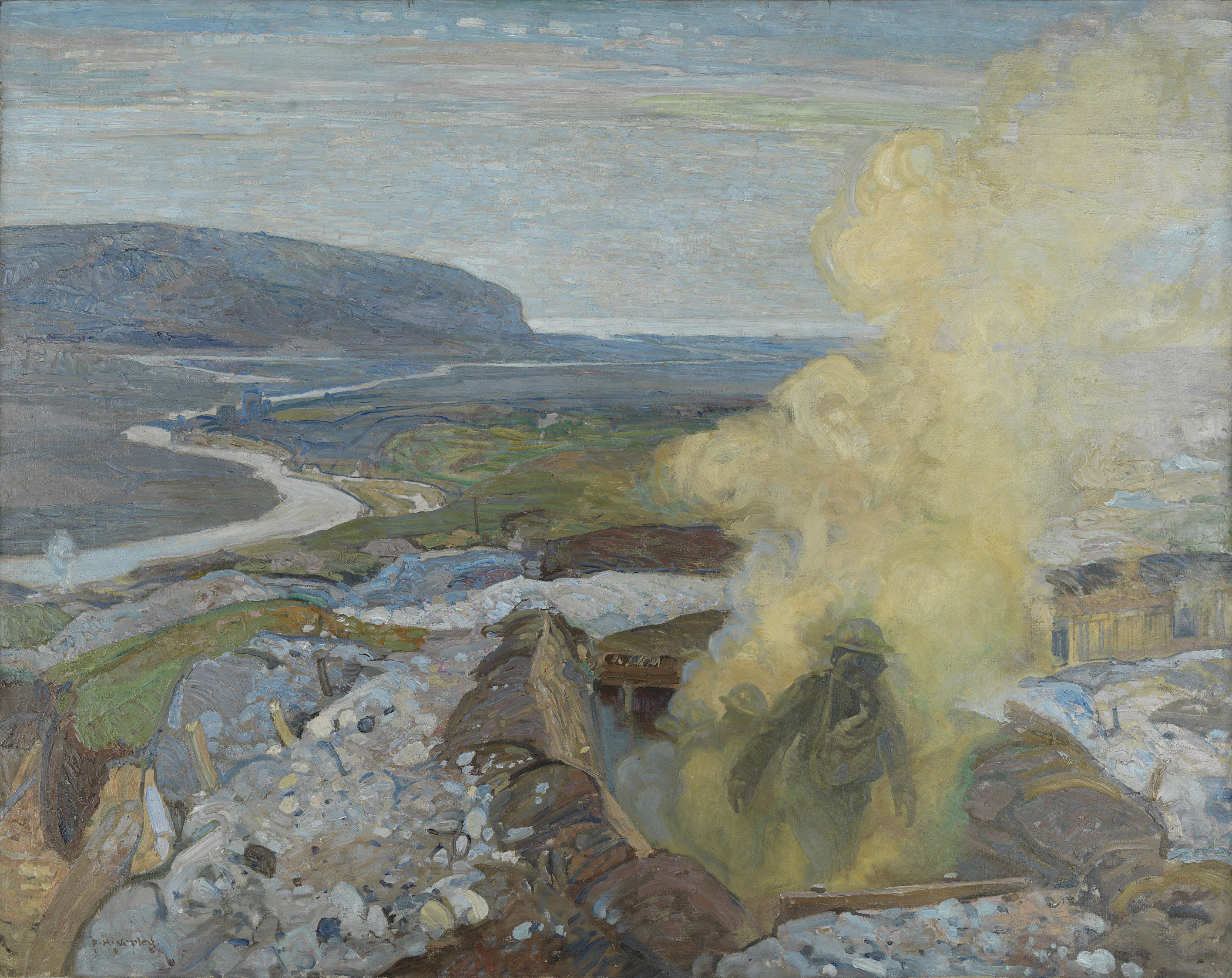 This painting by F.H. Varley, a future member of the Group of Seven, depicts a training exercise in Seaford, England. Soldiers emerge from a gas hut wearing respirators attached. Training to protect against gas attacks gradually became more realistic to better reflect combat conditions.